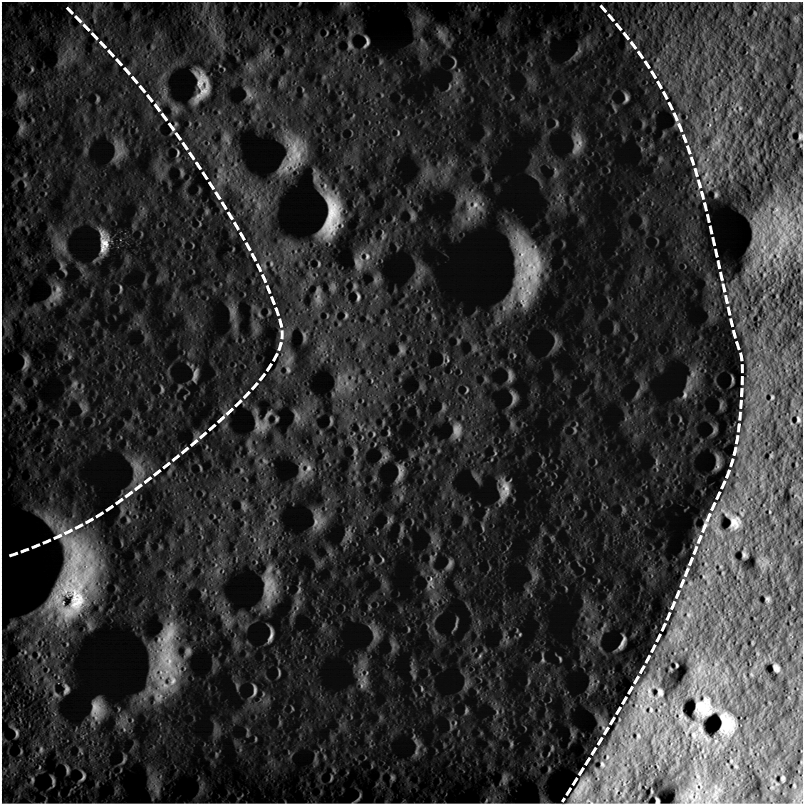 NAC view of a part of the lava terrace within the Bowditch feature. The wall of Bowditch is on the right and the terrace is located between the two dashed white lines. LROC NAC image M101478053R, image width is 2400 m, incidence angle is 86° [NASA/GSFC/Arizona State University].